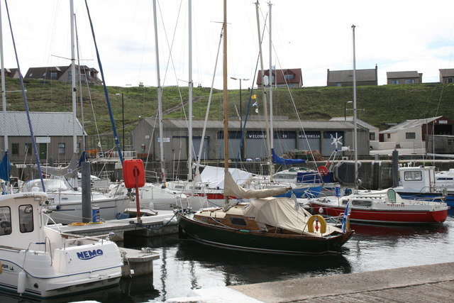 The harbour at Whitehills, Aberdeenshire, once a fishing port, now home to leisure craft